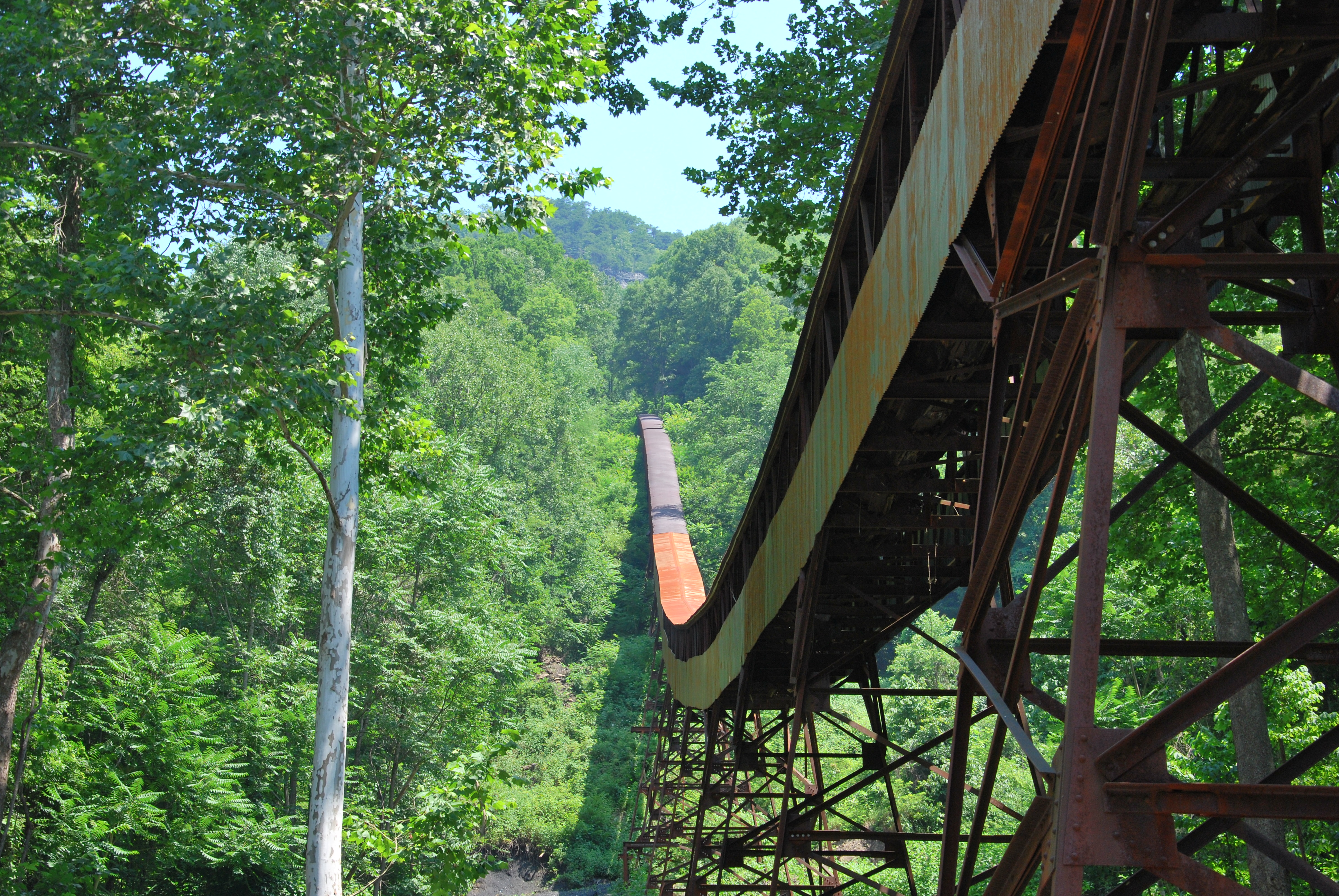 Mine conveyor at Nuttallburg, West Virginia in New River Gorge National River.